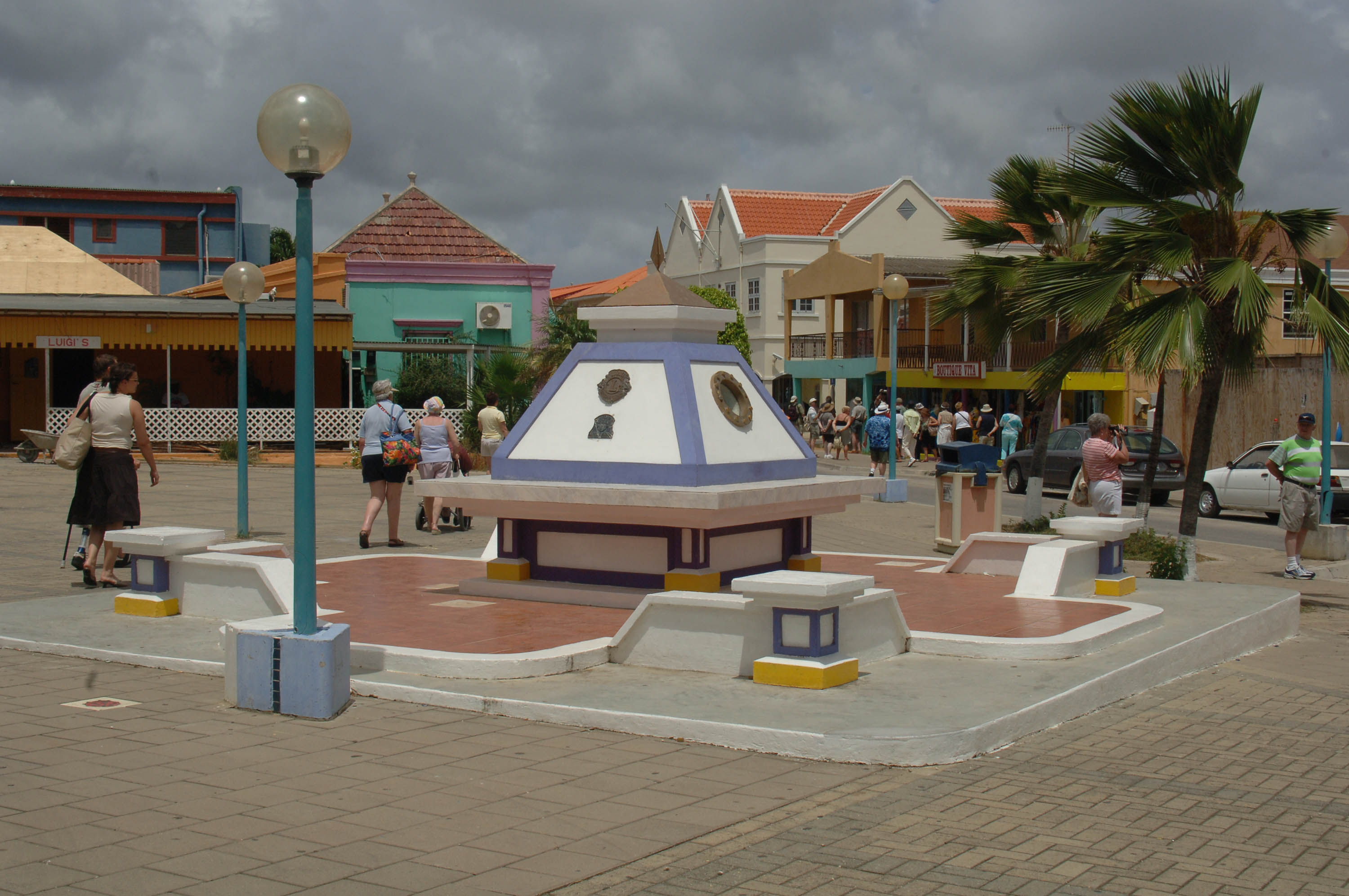 THIS IS A SMALL PARK IN DOWNTOWN KRALENDYJK MENTIONED BY THE TOURIST BUREAU IN WIKIPEDIAS ARTICLE ON KRALENDIJK